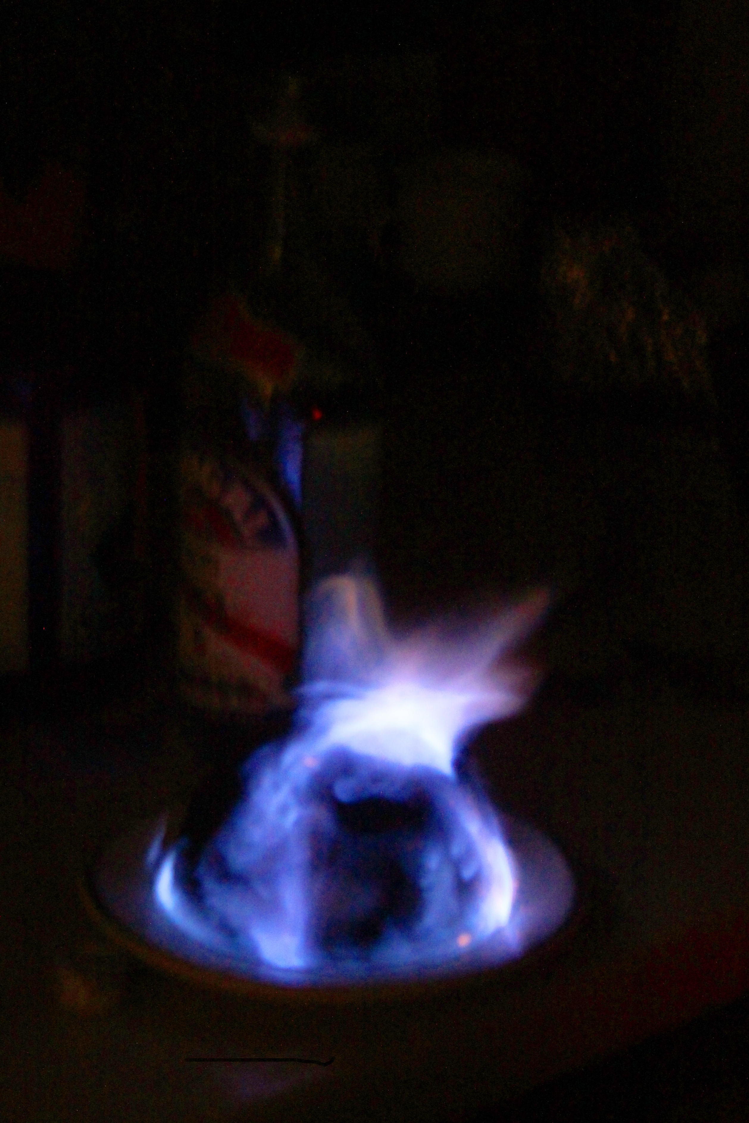 Christmas pudding afire, powered by 75% alc. rum!